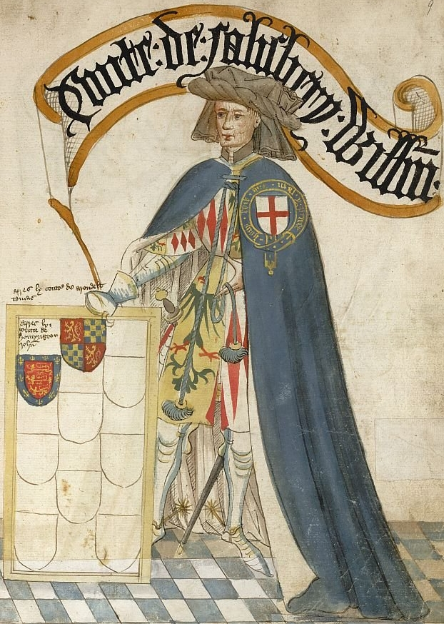 William Montacute, Earl of Salisbury, KG from the Bruges Garter Book, 1430/1440, BL Stowe 594. Blazon: Quarterly, 1st & 4th: Argent three fusils conjoined in fess gules (Montagu); 2nd and 3rd: Or an eagle displayed vert beaked and membered gules (Monthermer). "Conte de Salisbery, Will(ia)m", William de Montacute, 2nd Earl of Salisbury, KG, illustration from the Bruges Garter Book, c.1430. The arms of Monthermer (Or, an eagle displayed vert beaked and membered gules) shown quartered by Montagu on his tabard are apparently incorrect, as it was his younger brother John de Montacute, 1st Baron Montacute (c. 1330 - c. 1390) who married the Monthermer heiress.